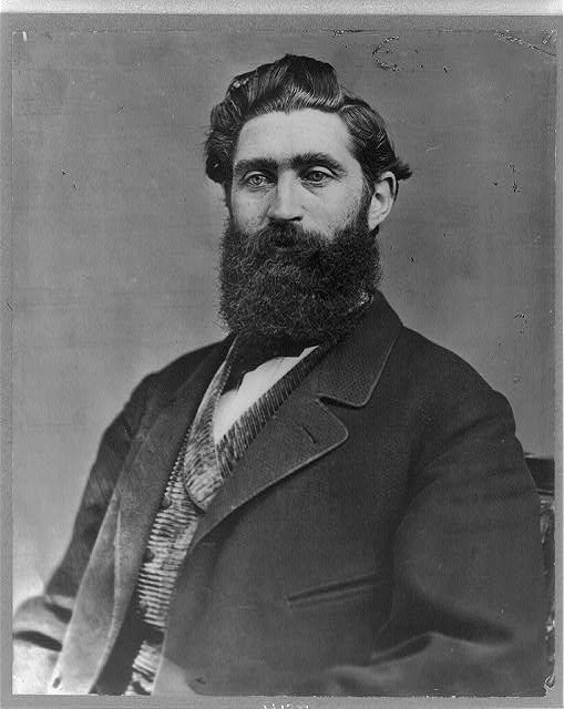 TITLE: General Thomas Moonlight, head-and-shoulders portrait, facing left] CALL NUMBER: BIOG FILE [item] [P&P] REPRODUCTION NUMBER: LC-USZ62-44452 (b&w film copy neg.) No known restrictions on publication. MEDIUM: 1 photographic print. CREATED/PUBLISHED: [no date recorded on caption card] NOTES: Photo by Brady/Handy (original negative cracked: LC-BH832-544). This record contains unverified, old data from caption card. REPOSITORY: Library of Congress Prints and Photographs Division Washington, D.C. 20540 USA DIGITAL ID: (digital file from b&w film copy neg.) cph 3a44684 CARD #: 2005676542